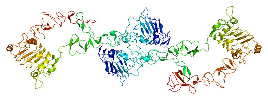 Structure of the ERBB3 protein. Based on PyMOL rendering of PDB 1m6b.